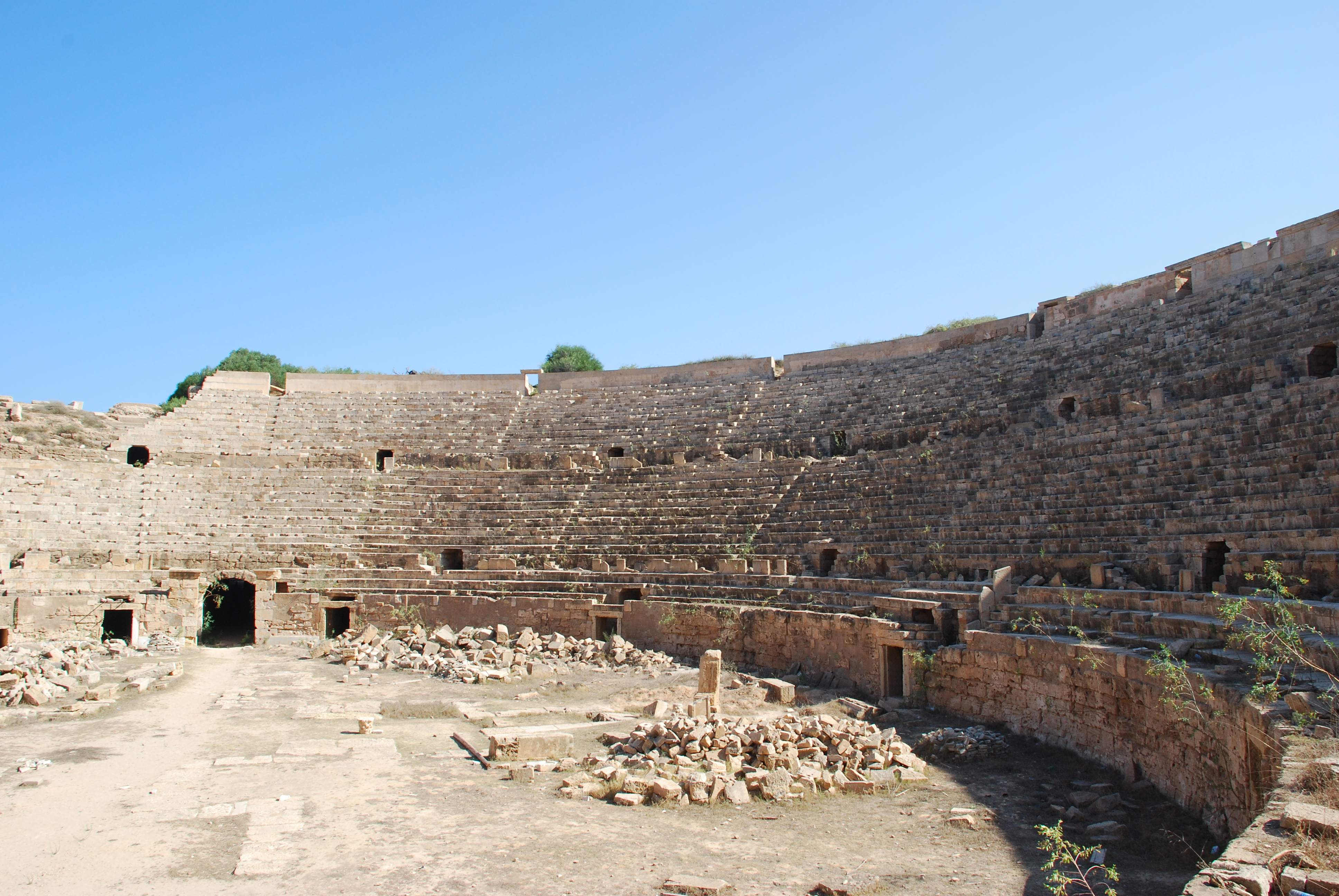 Amphitheatre of Leptis Magna/Libya